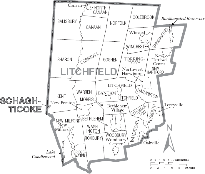 Map of Litchfield County, Connecticut, United States with township and municipal boundaries